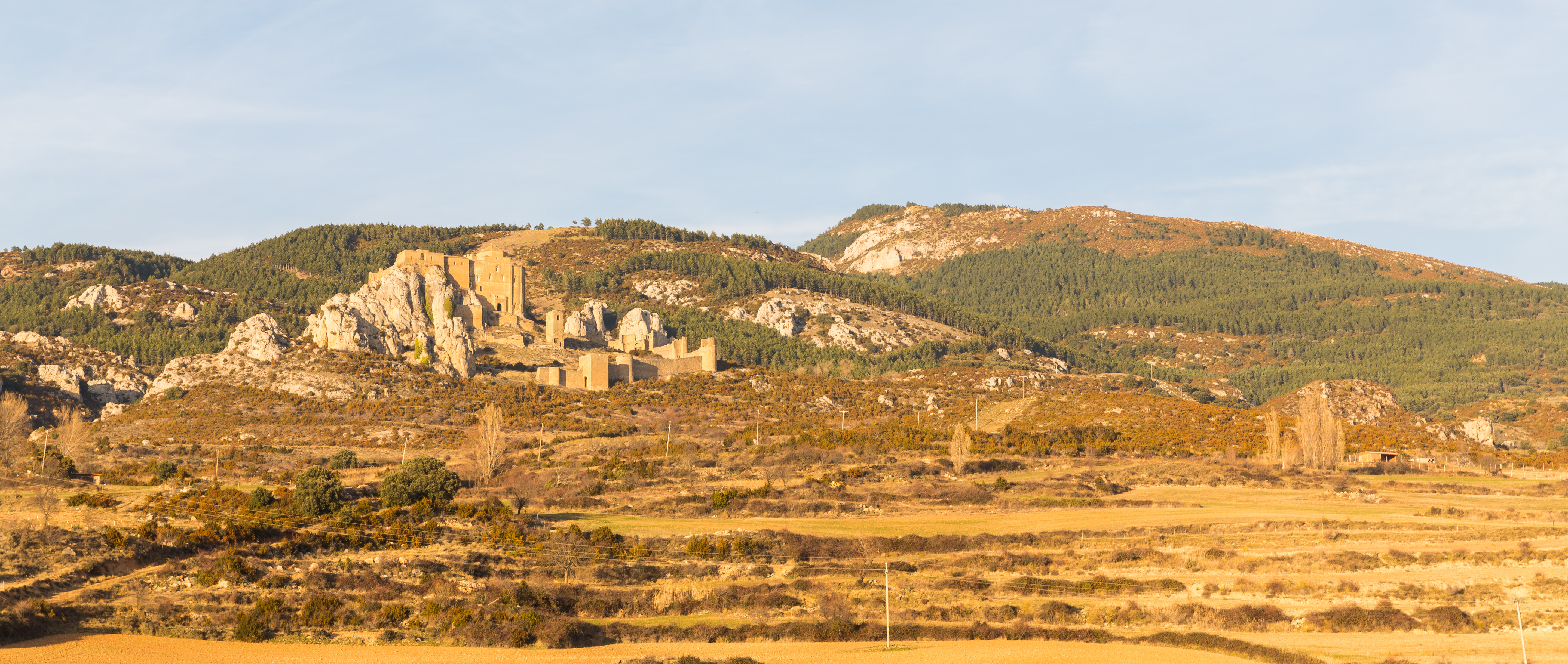 Loarre Castle, Loarre, Huesca, Spain